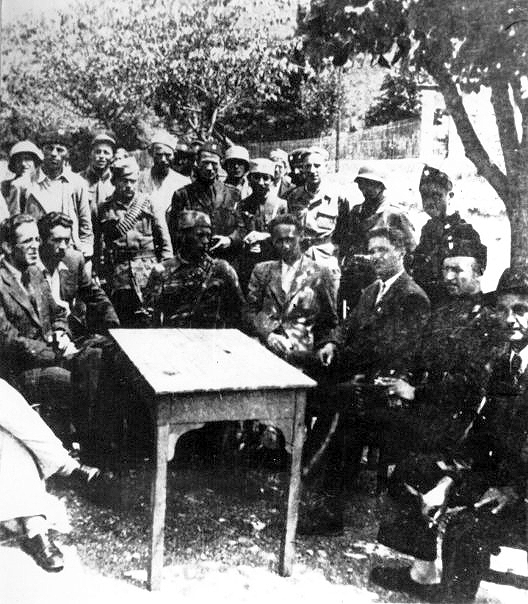 Meeting of representatives of the Chetniks, Ustasa, and Domobrani (Ustasa home guard) in Bosnia.